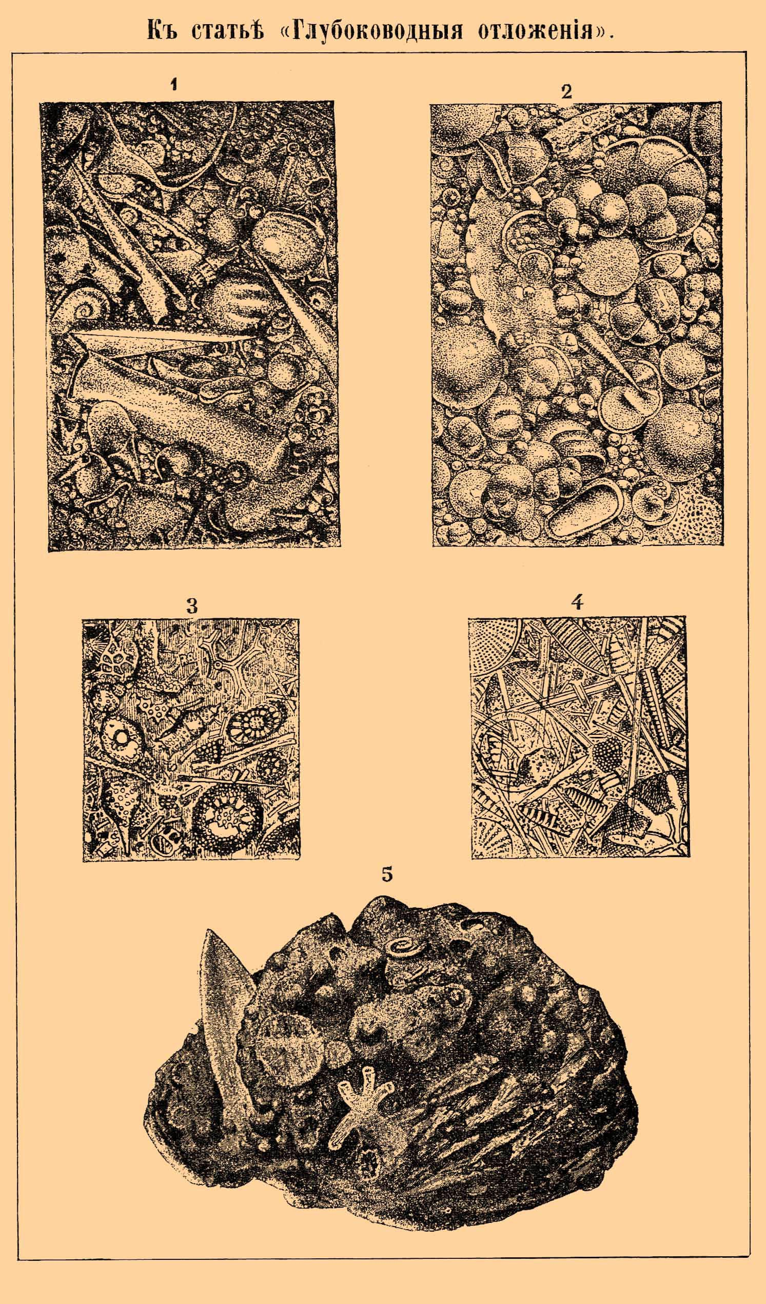 Illustration from Brockhaus and Efron Encyclopedic Dictionary (1890—1907)